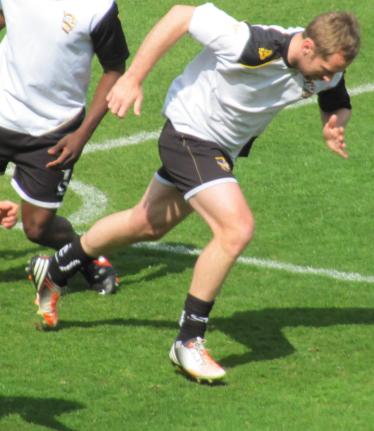 Pictured during the 2-2 draw between Port Vale and Northampton Town on 20 April 2013.